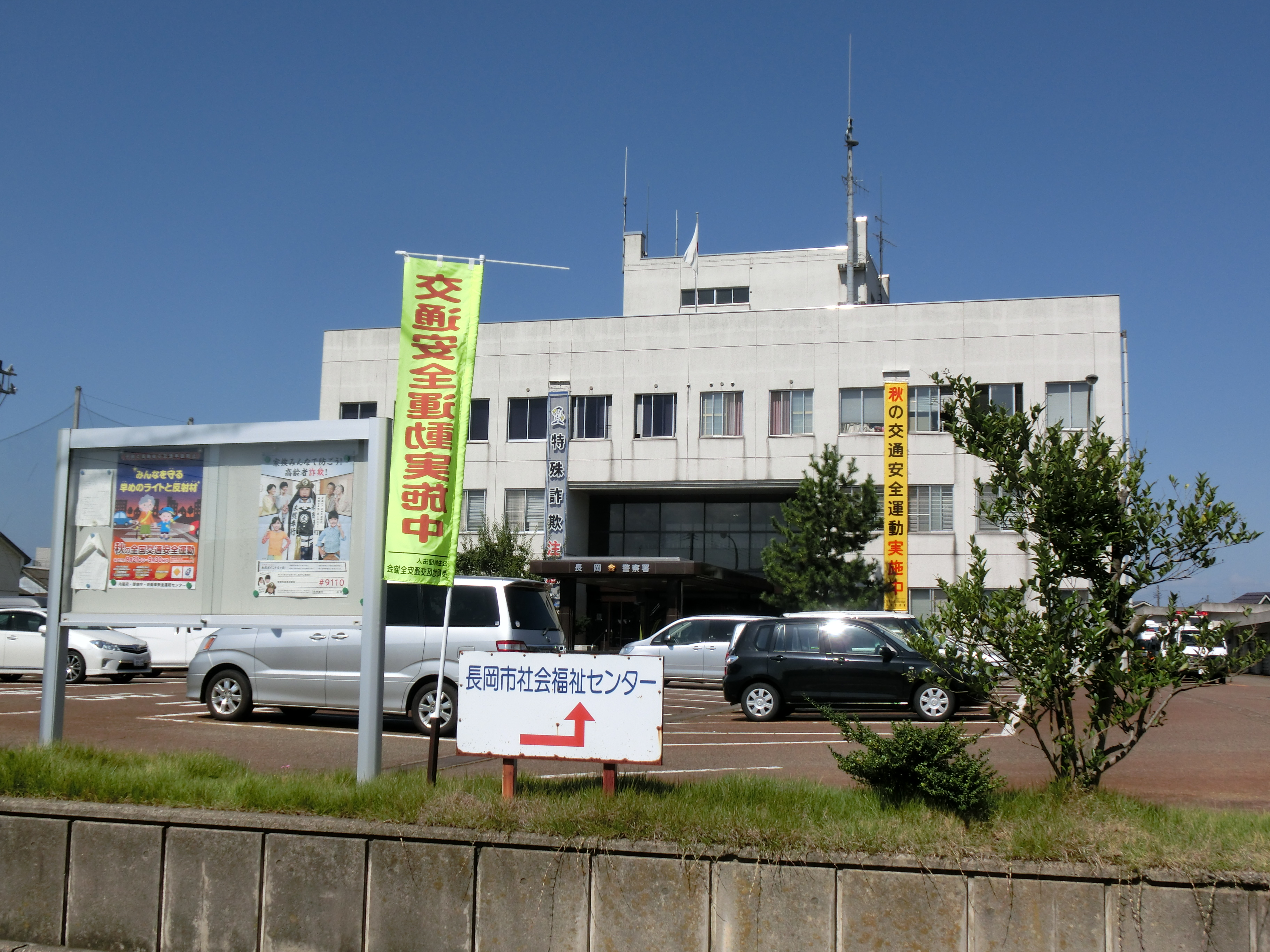 Nagaoka Police Station